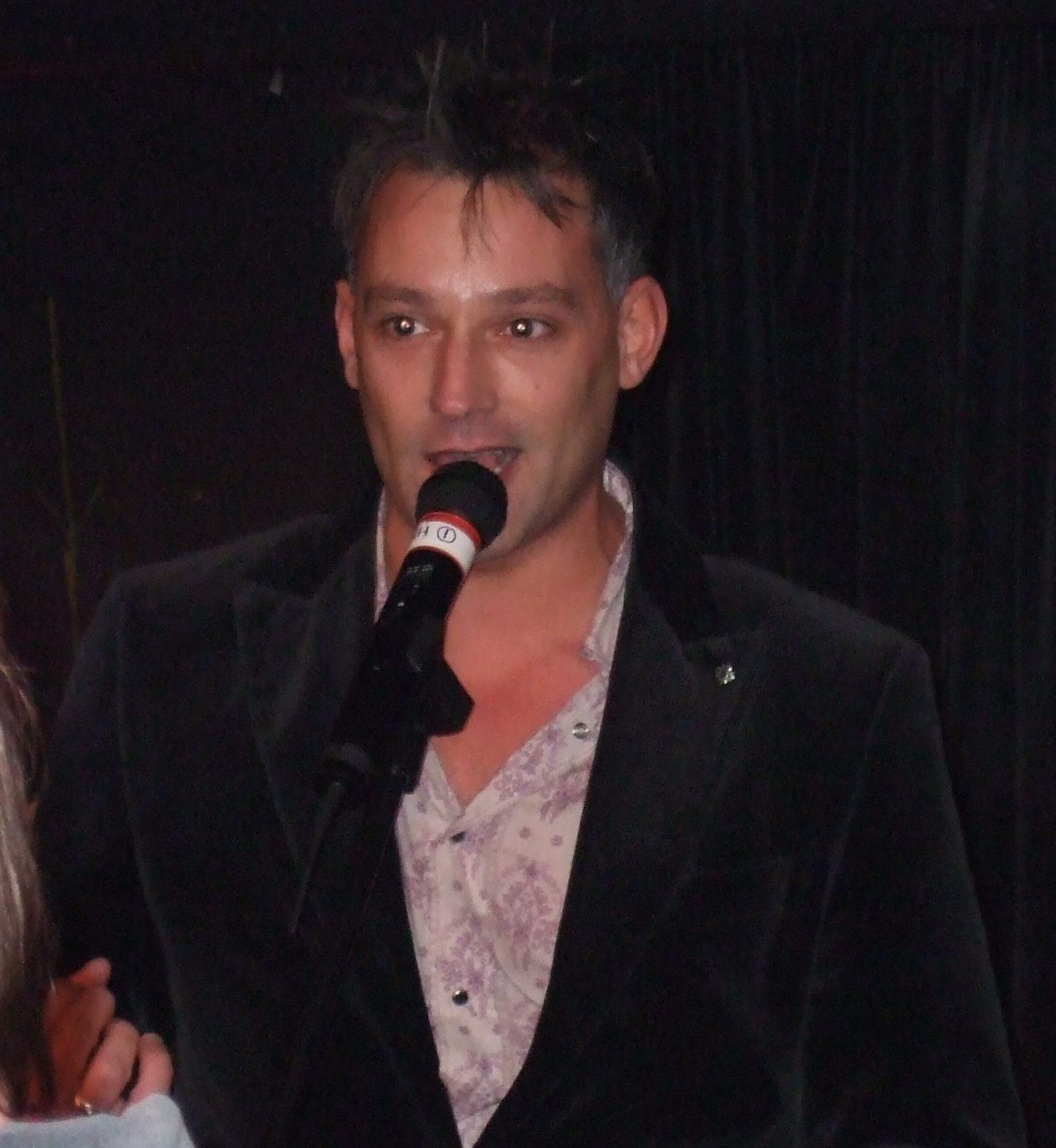 tighter crop of Toby Anstis at RadioCentre party in January 2007